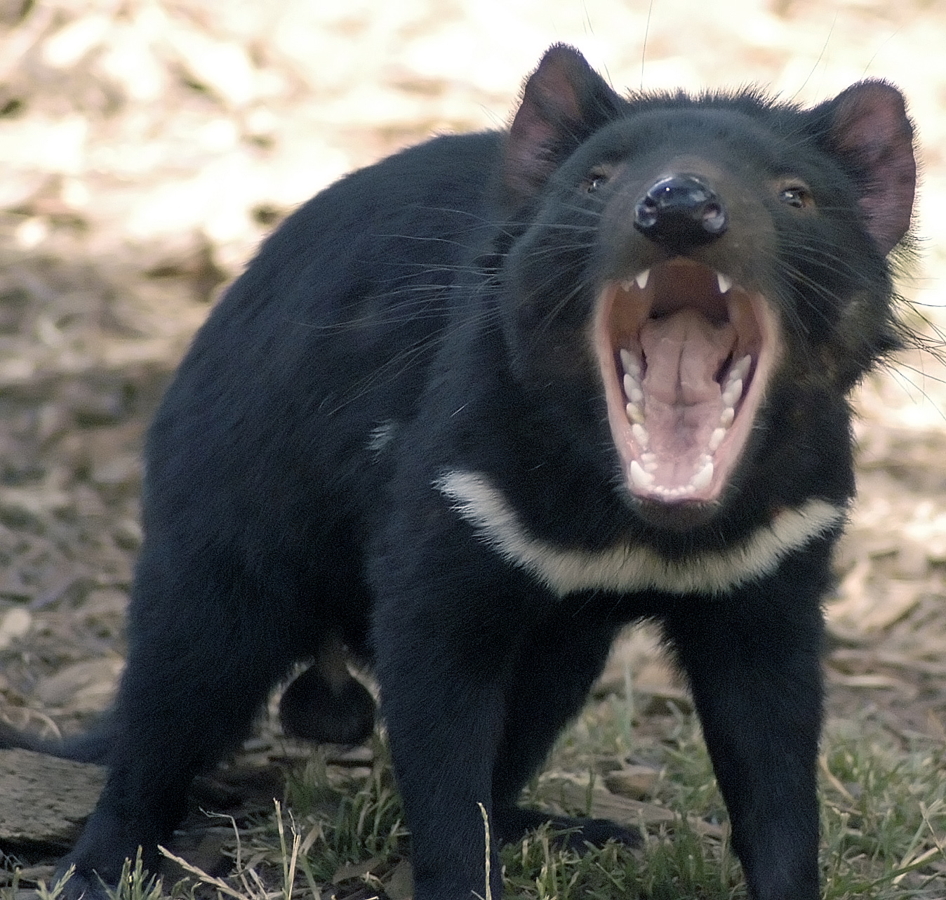 Tasmanian Devil in defensive stance, at Tasmanian Devil Conservation Park, Tasman Peninsula.